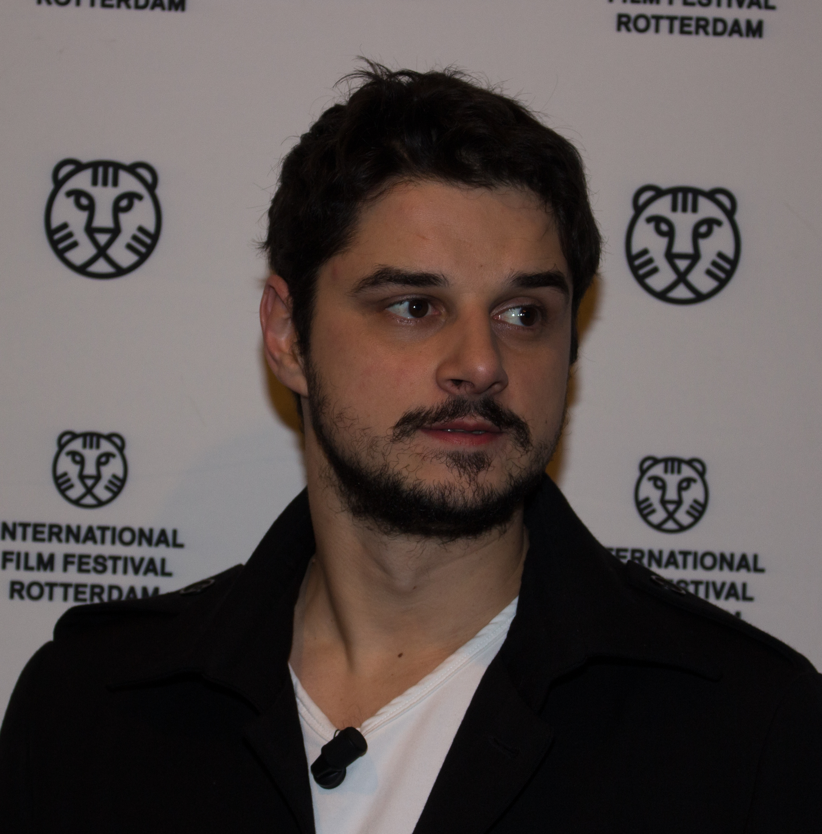 Nikola Rakocevic at the premiere of "The Sky Above Us"